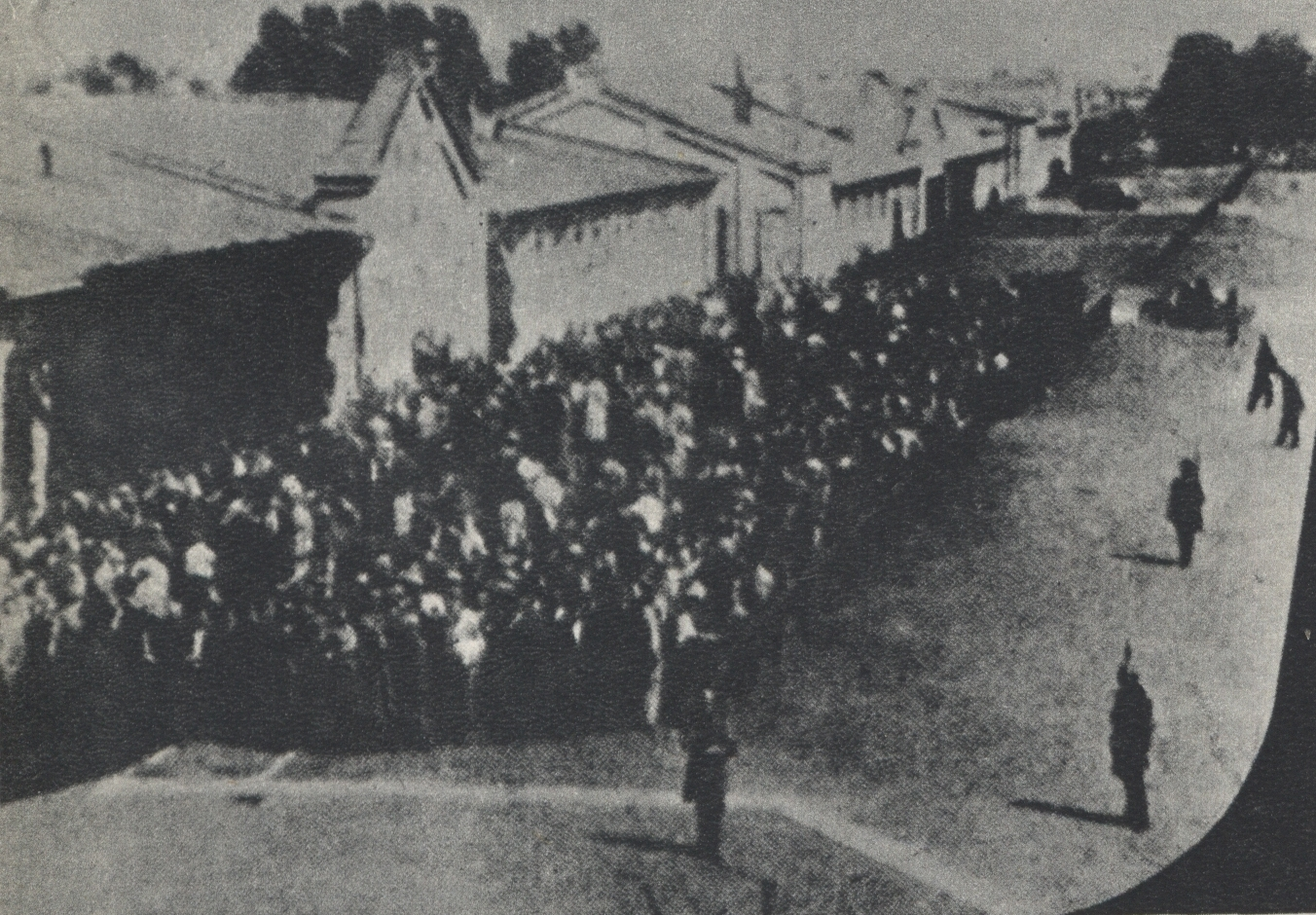 Poles from Warsaw arrested by Nazi-German occupants during the “łapanka” and gathered at the courtyard of SS-Reitereiregiment barracks at Podchorążych Street. August 1940.